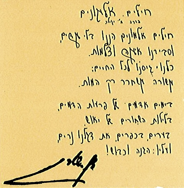 The original poem, Hayalim Almonim